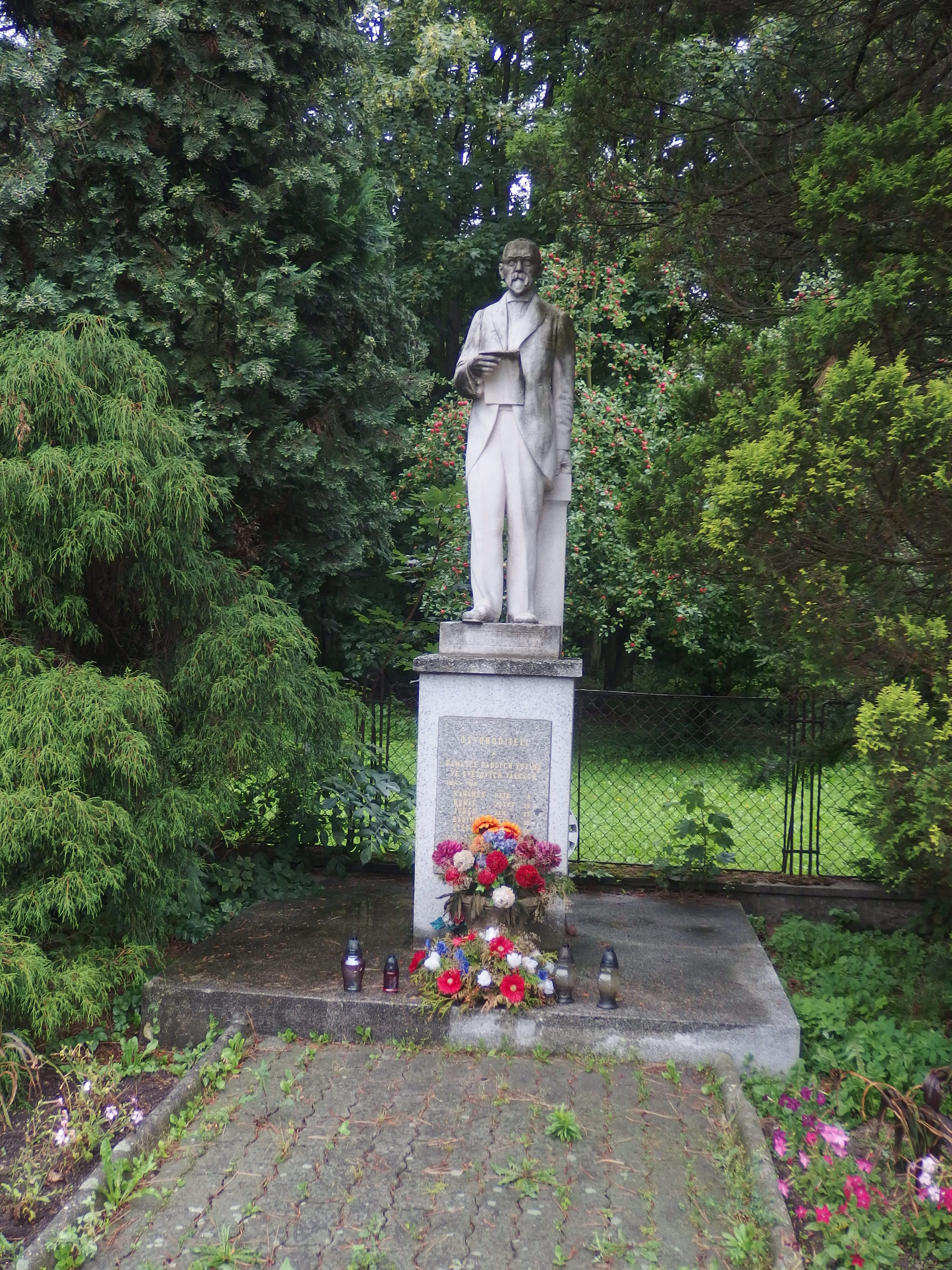 Kopřivnice, Nový Jičín District, Czech Republic, part Vlčovice.